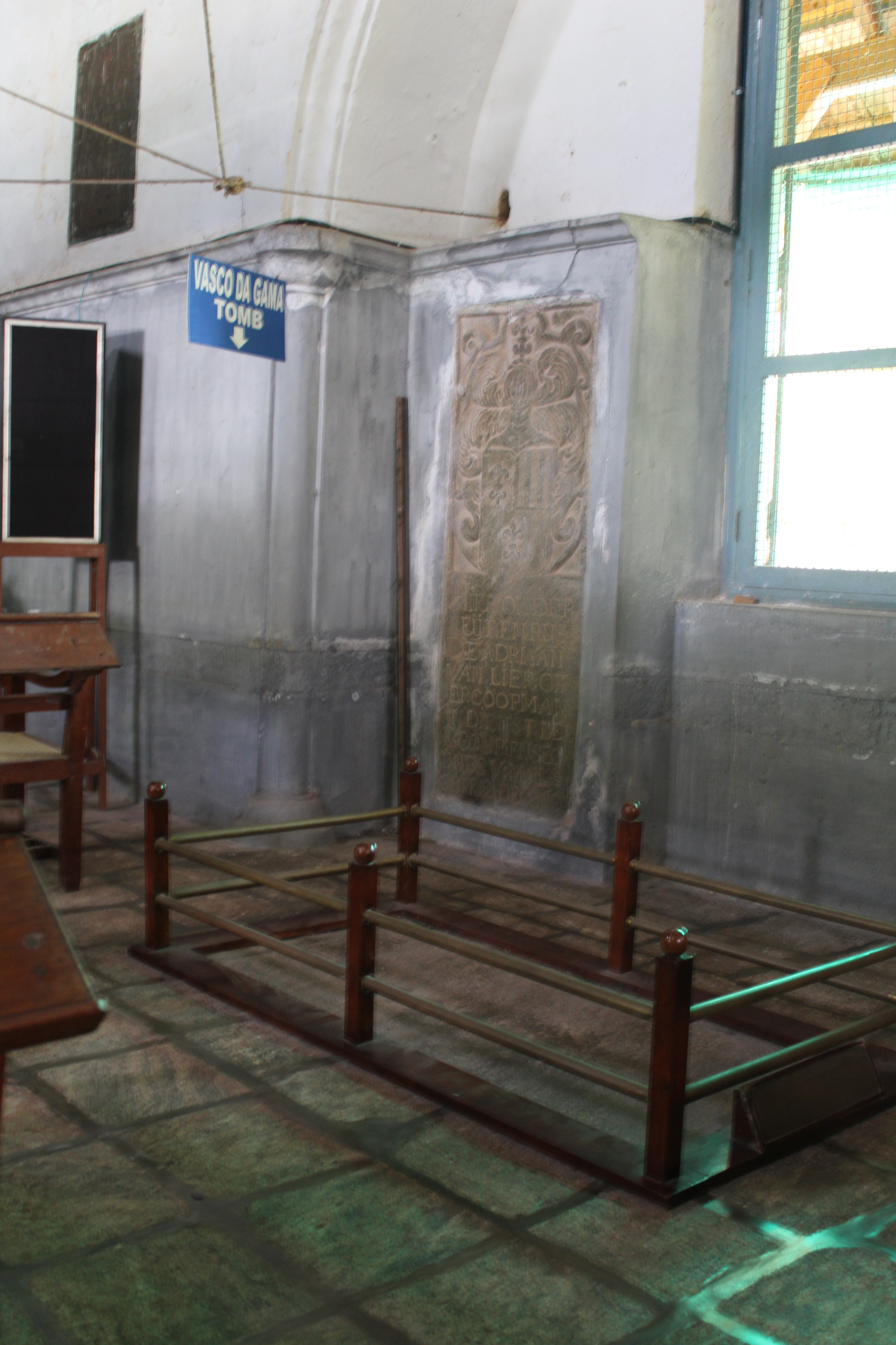 Tomb of Gama,St. Francis CSI Church, in Kochi. Vasco da Gama died in Kochi in 1524 when he was on his third visit to India. His body was originally buried in this church.